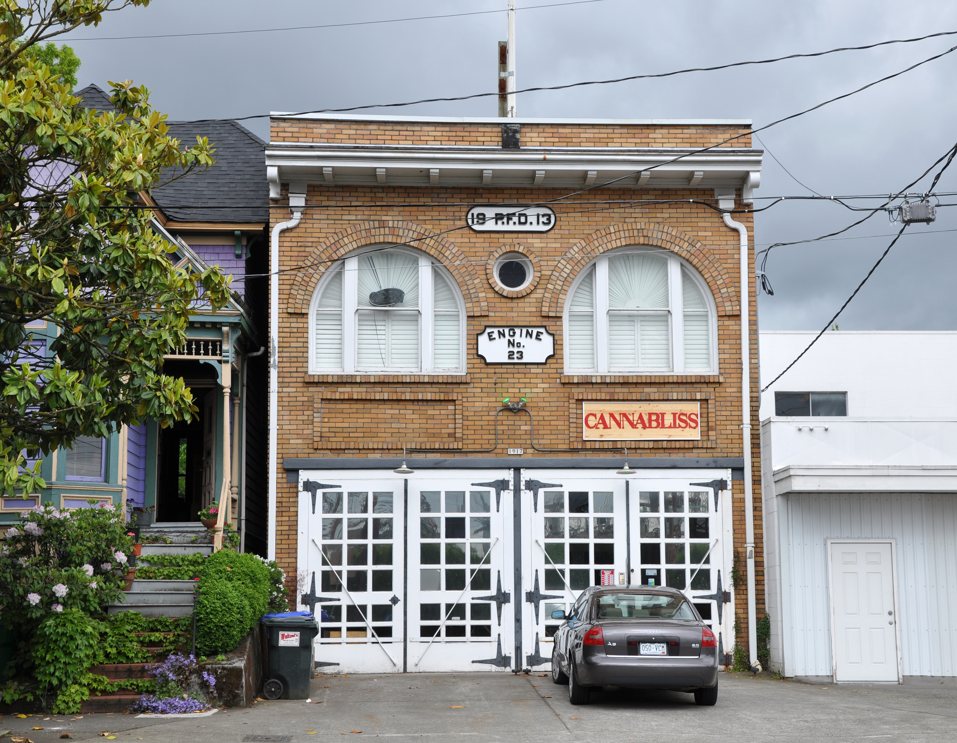 Fire Station No. 23 in Portland in the U.S. state of Oregon. The structure is listed on the National Register of Historic Places.